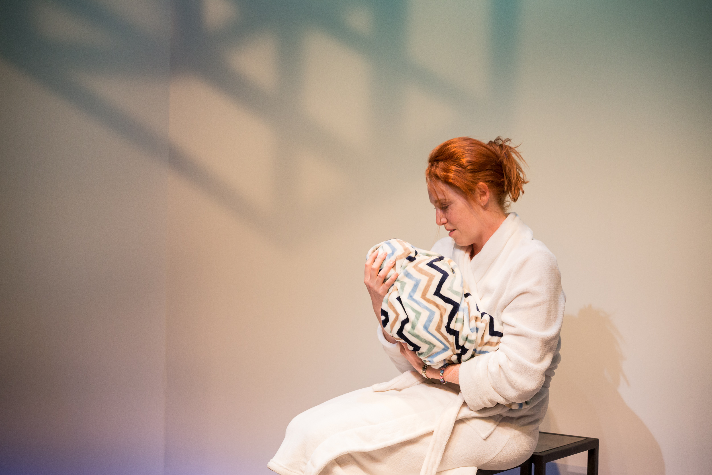 Gabrielle Scawthorn performing in the Ensemble Theatre's 2016 production of e-baby